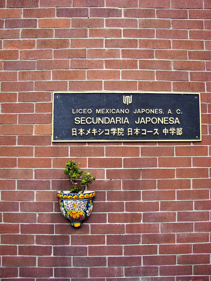 Liceo Mexicano Japonés Japanese Section Junior High School